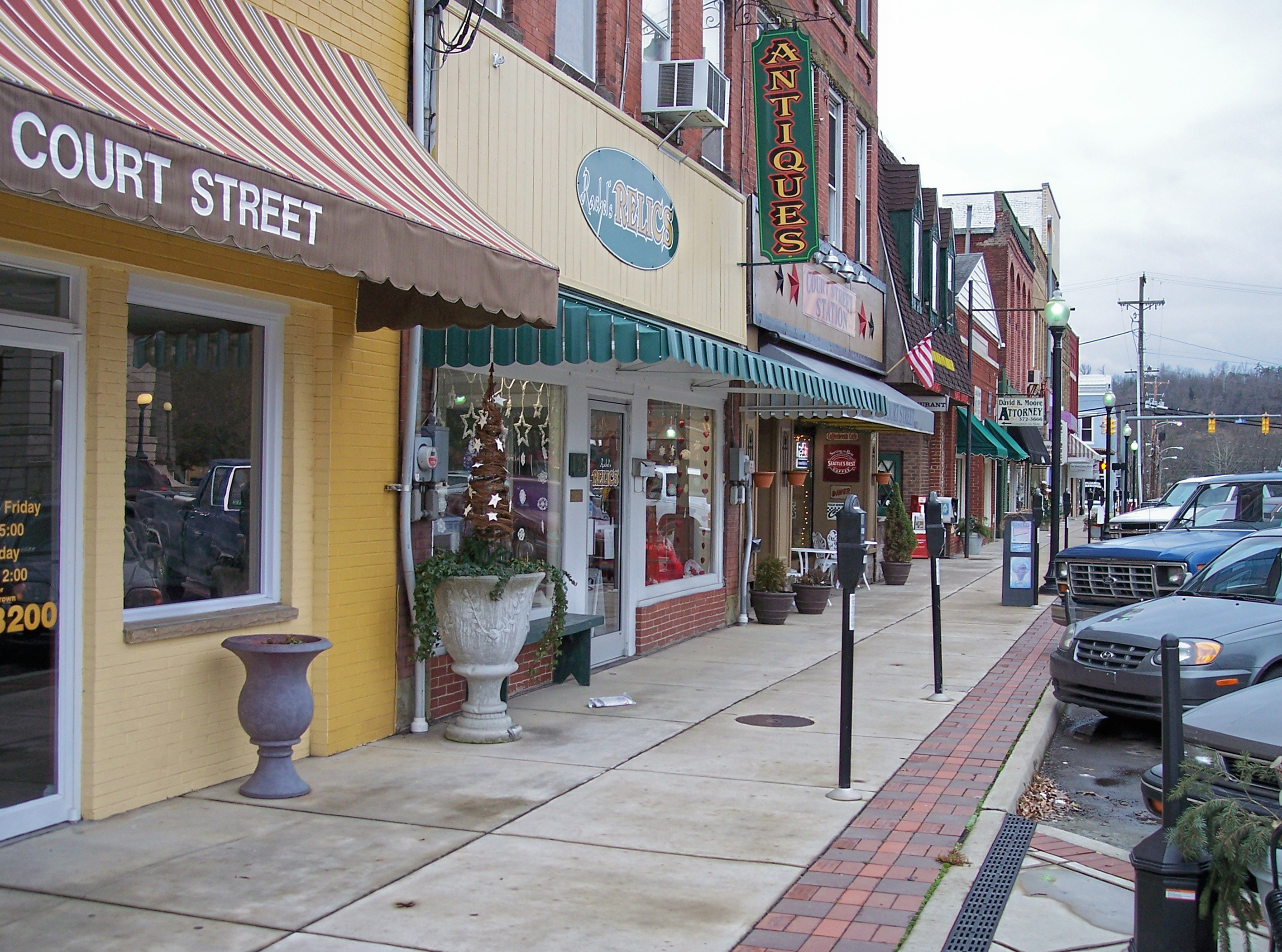 North Court Street in downtown Ripley, West Virginia; part of the Ripley Historic District.